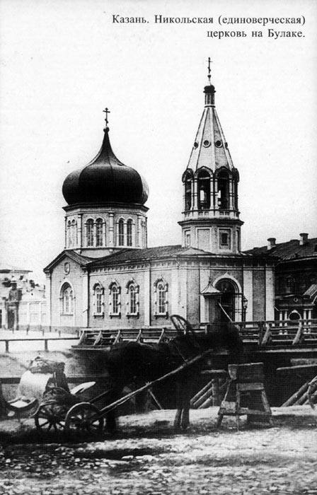 Nikolsky-edinovercheskaya church at Bulak in Kazan. Currently used as a shop.